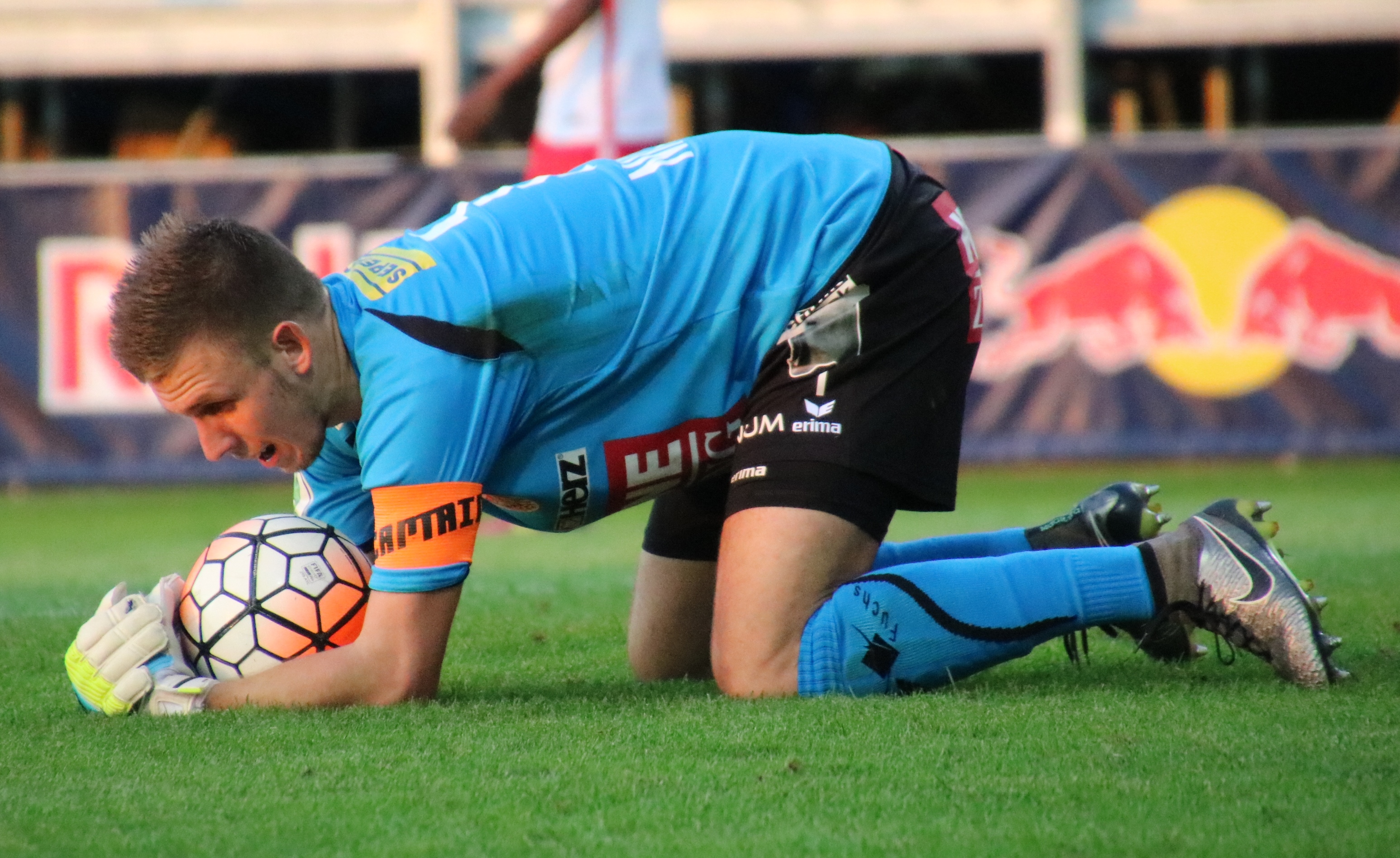 league match Austria 2nd league